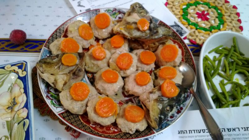 Rosh Hashanah food